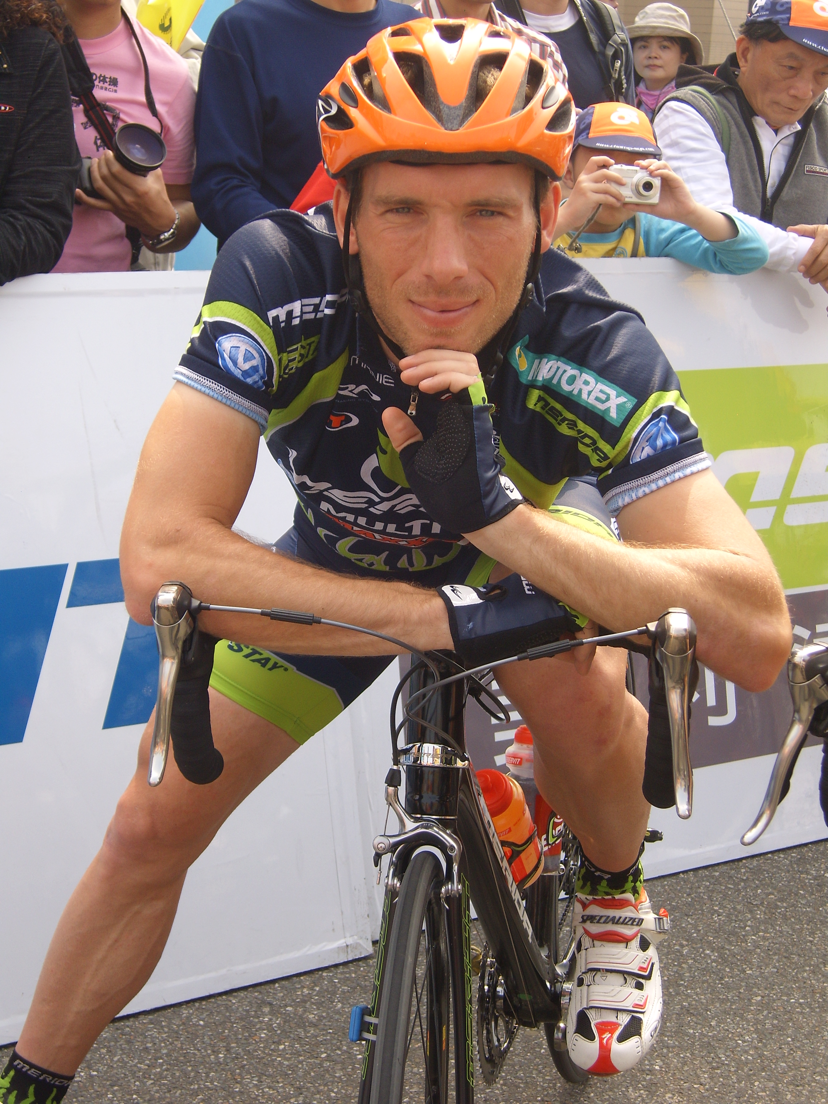 2008 Tour de Taiwan Stage 8: Marek Wesoły, once again won the Champion in this stage.